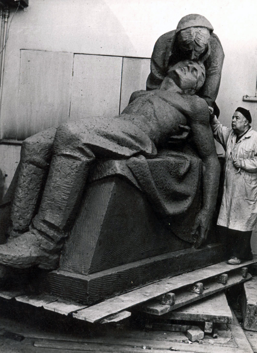 Ara Sargsyan, In the memory of the killed soldier, 1960